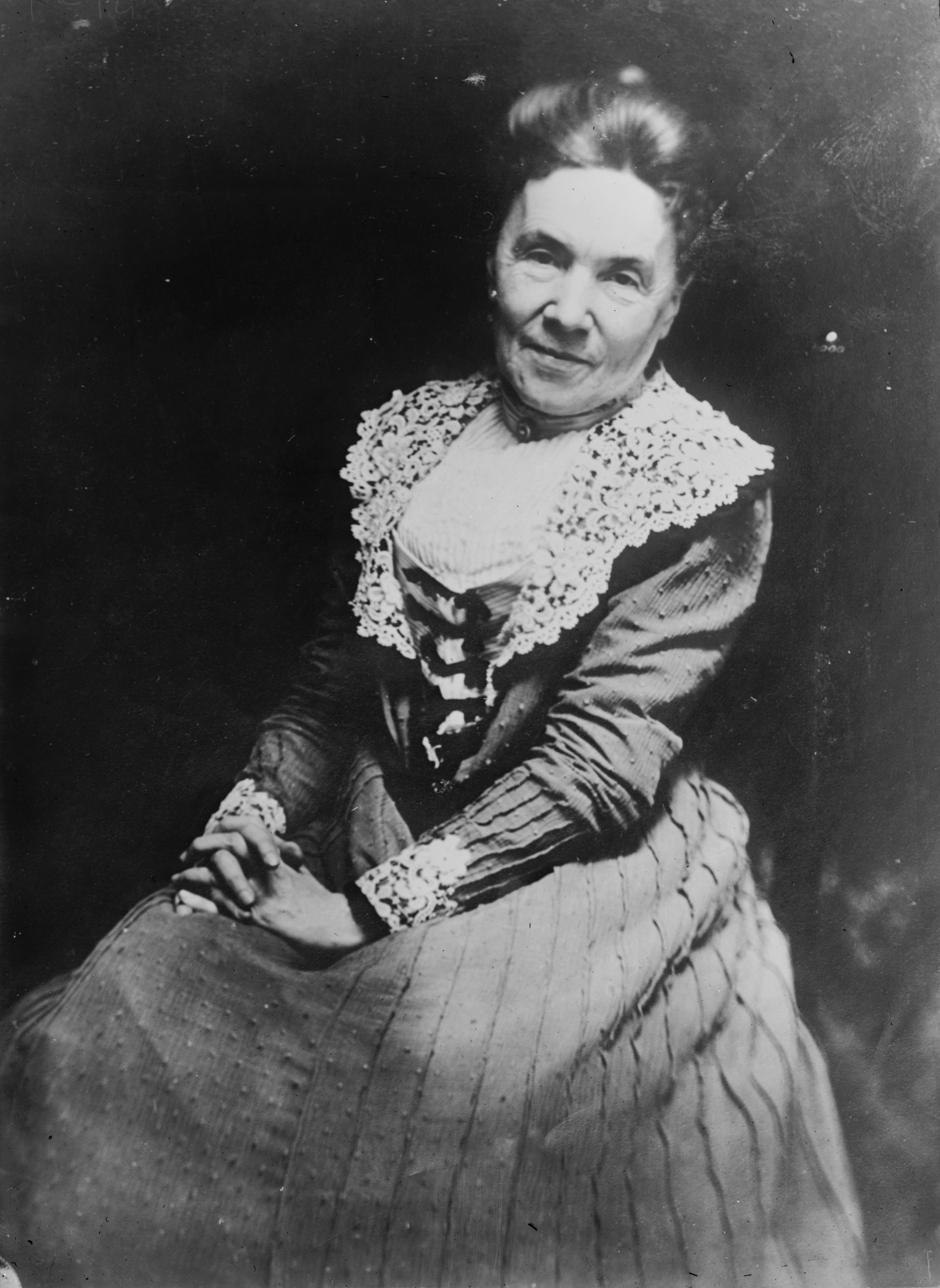 Photographic portrait of Laura Spelman Rockefeller, seated.